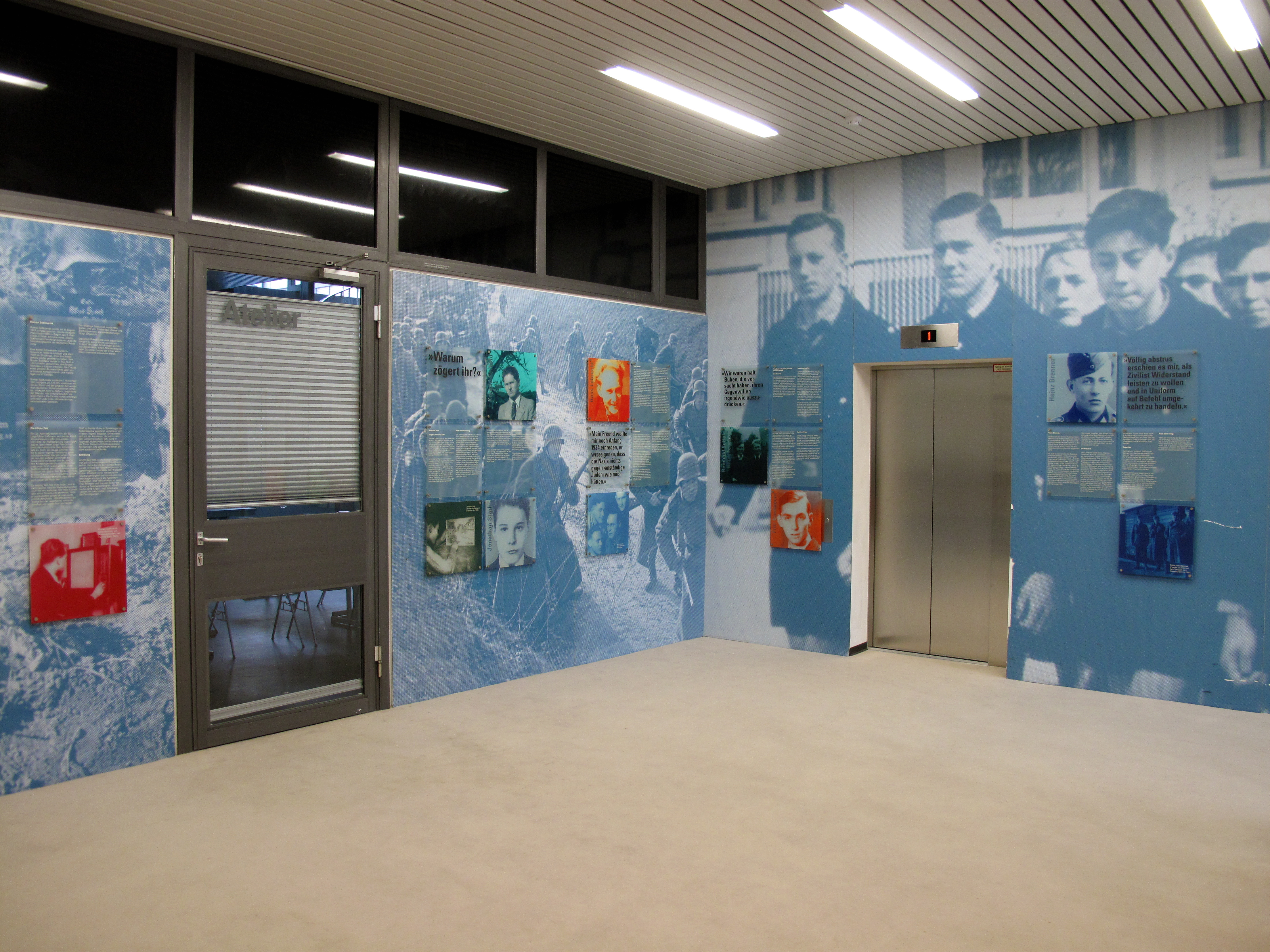 The Ulmer DenkStätte Weiße Rose is in the foyer of the EinsteinHaus, the headquarters of the Ulmer Volkshochschule (vh Ulm) (Adult Education Centre of Ulm) is a memorial for young people from Ulm who were in the resistance against the Nazi-Regime between 1933 and 1945 – amoung them also Hans and Sophie Scholl.